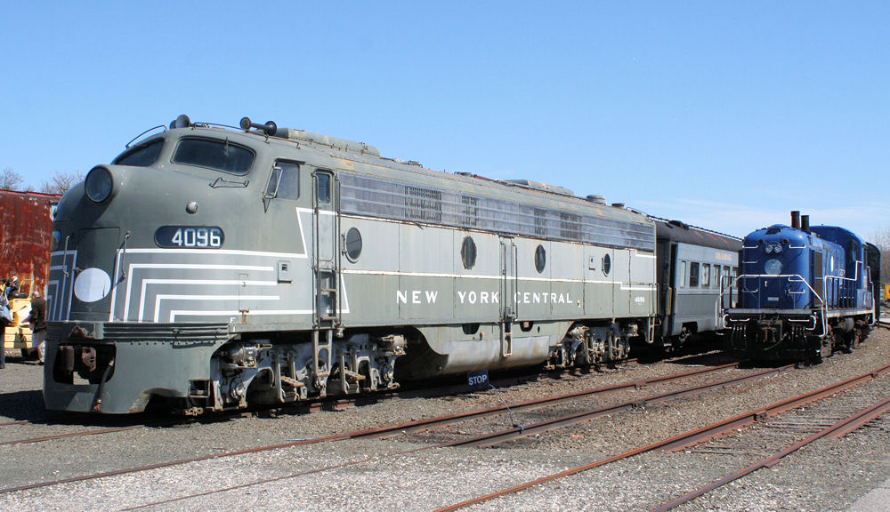 "NYC 4096" at Danbury Railway Museum in 2006. Built as EMD E7 #765 for the Train of Tomorrow, rebuilt as E8 #912A for the Union Pacific Railroad, rebuilt as E9A #417 for Amtrak. Arrived at Danbury Railroad Museum in 1997, repainted as "NYC 4096" (one number higher than the last NYC E8). This locomotive never actually operated for the NYC.